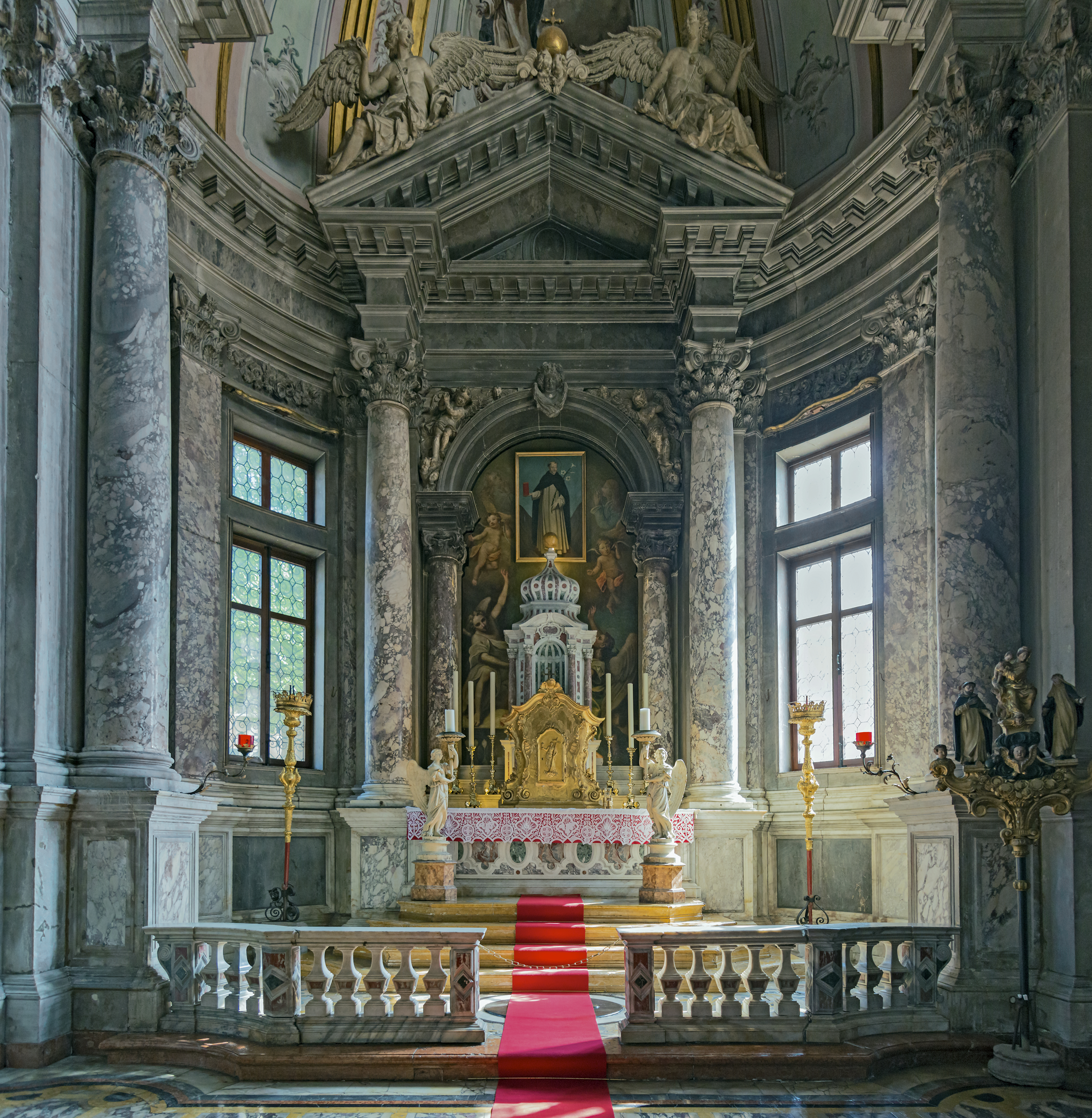 Santi Giovanni e Paolo in Venice - Choir of Chapel of St. Dominic by Andrea Tirali in 1690